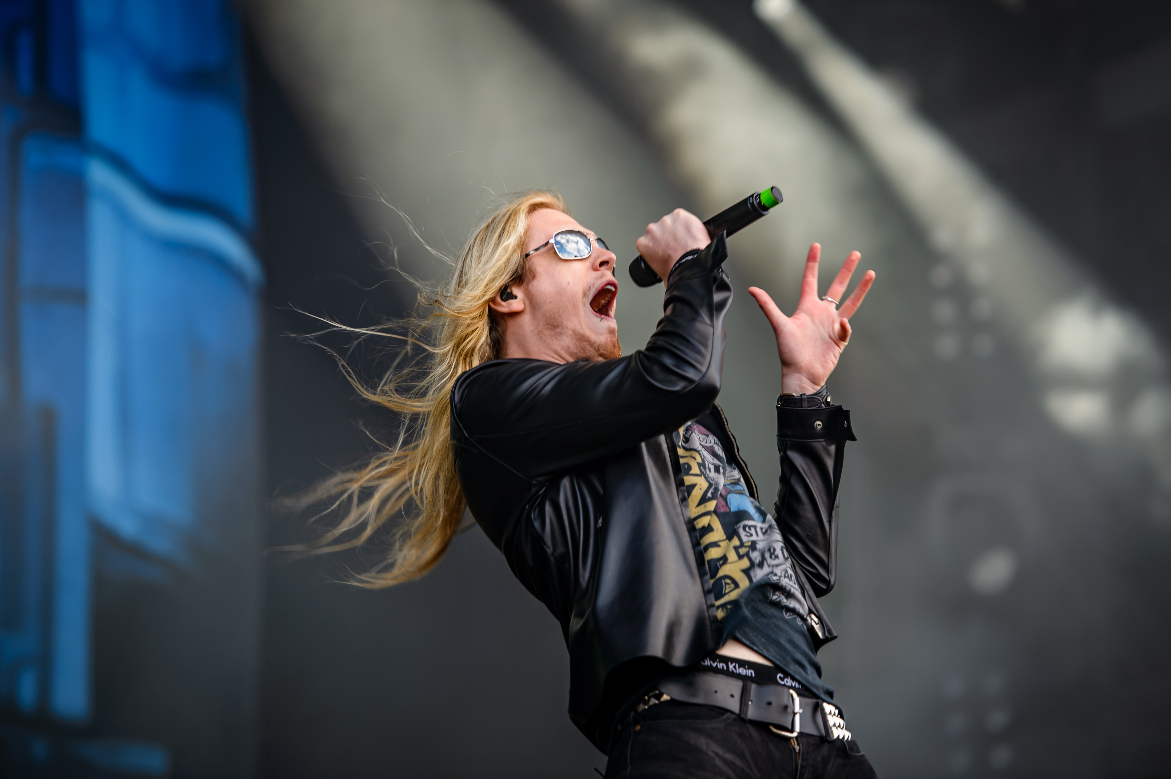 DragonForce; Wacken Open Air 2016